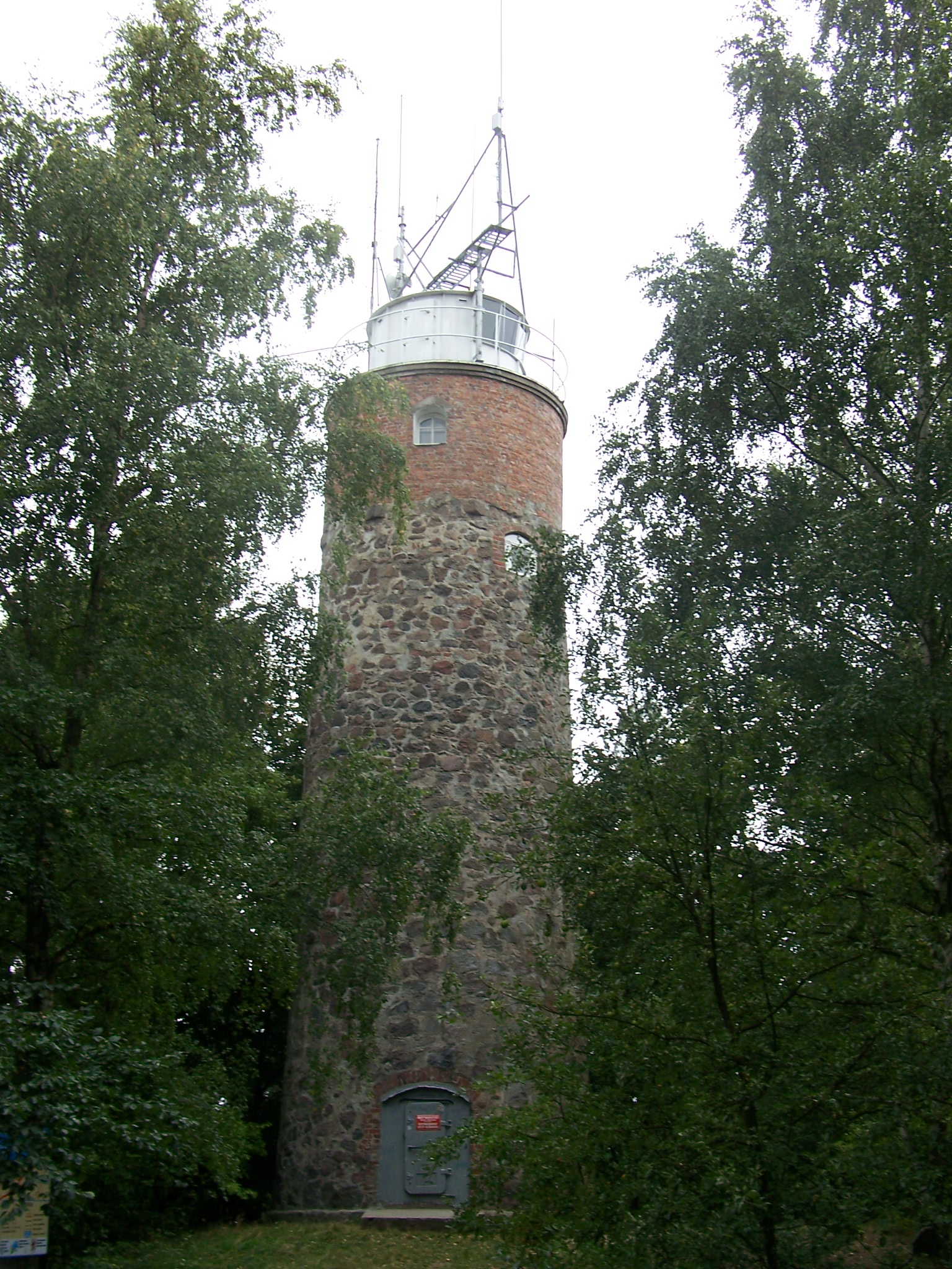 Kikut Lighthouse, Poland